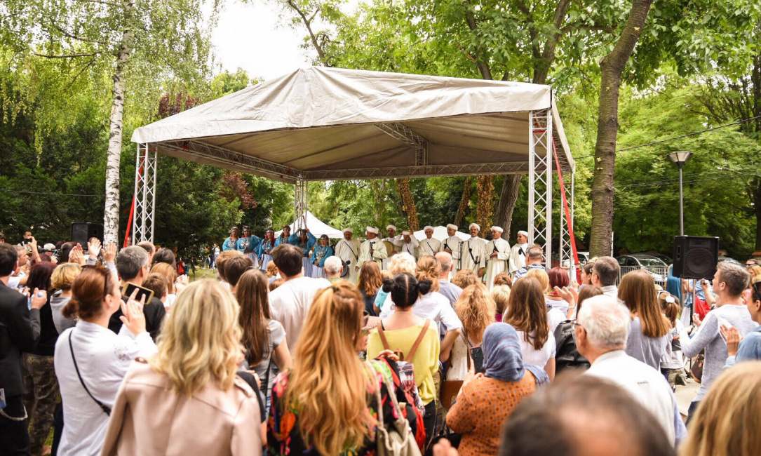 Afro festival 2018, Museum of African Art - The Veda and Dr. Zdravko Pečar Collection